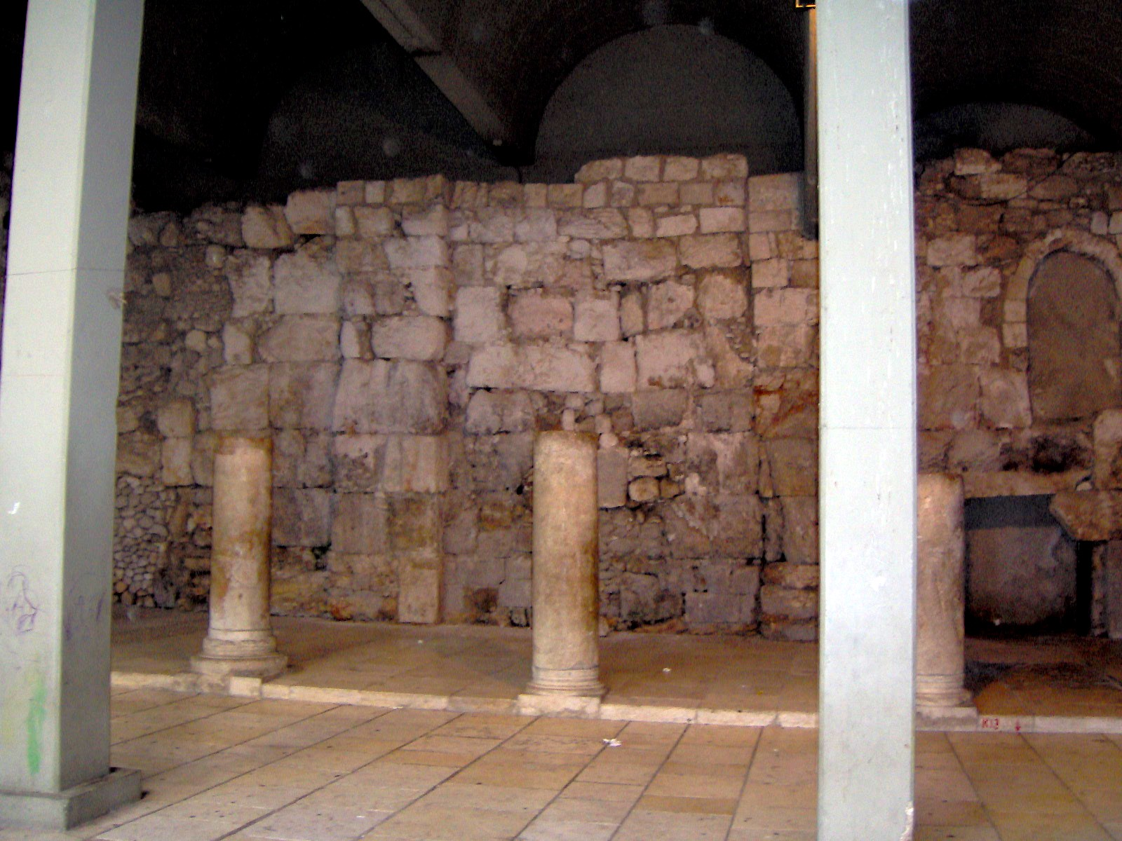 Relics of the Roman Cardo in Jerusalem.